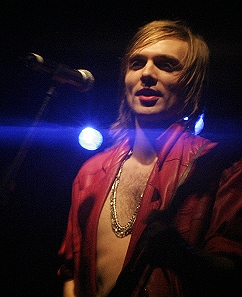 Cropped and sharpened version of Image:Moto Boy at Caribia 2.png